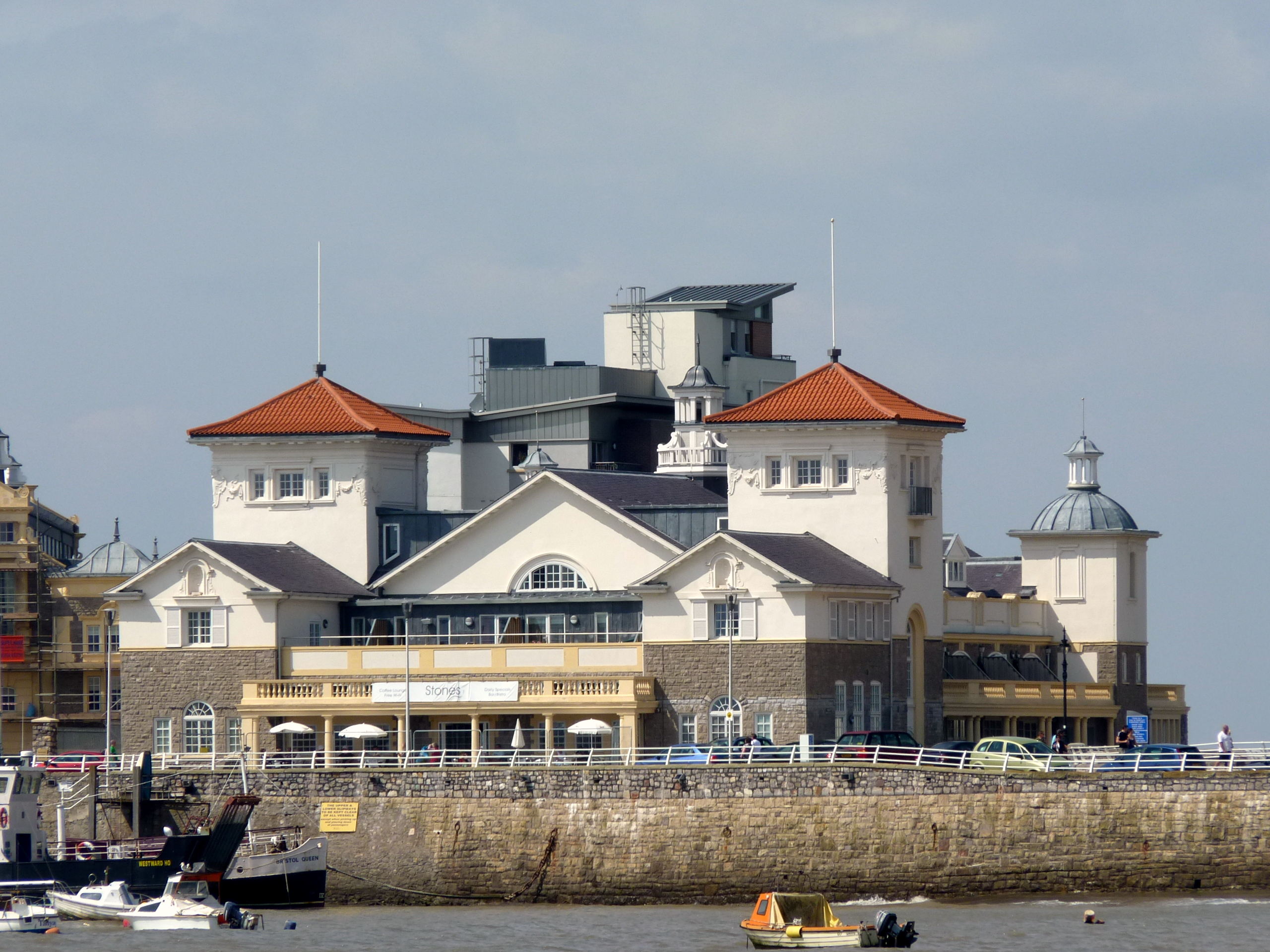 Knightstone complex, Weston-Super-Mare